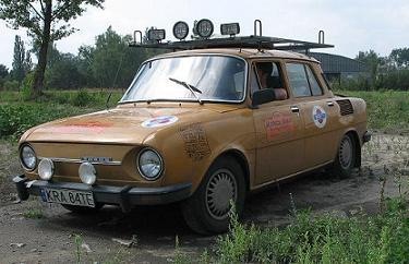 Skoda S110 used by Skoda Power Turbo Racing Team in the 2006 Mongol Rally. Captured by Rich Tatham in Warsaw, Poland using a Canon Powershot A610.